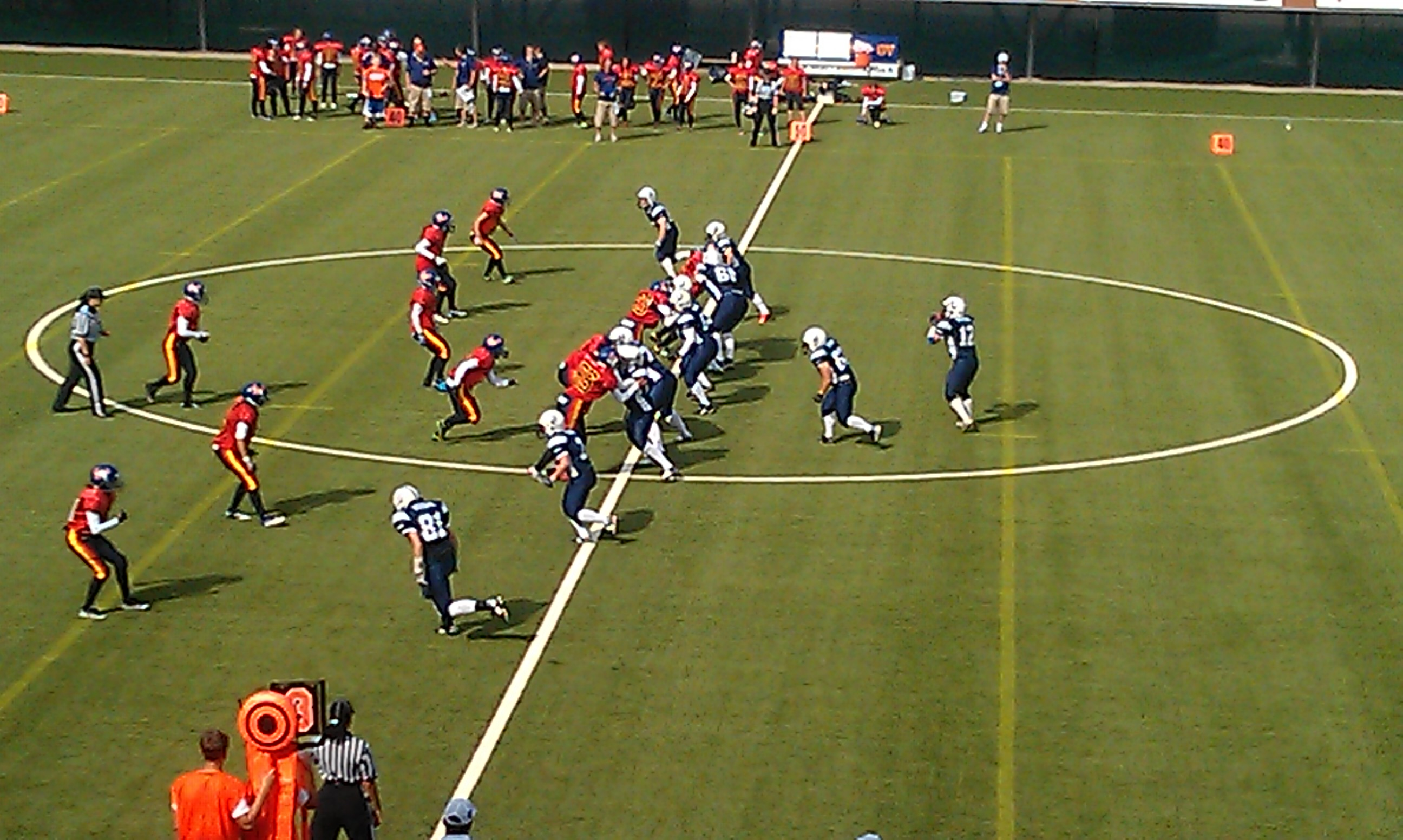 2013 IFAF Women's World Championship game between Finland and Spain